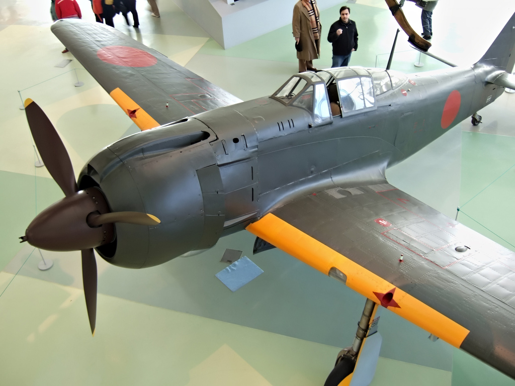 Ki-100 (五式戦闘機), one of the japanese army's fighter aircrafts in WW2, displayed in the RAF Museum at Hendon, London.